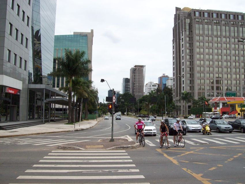 JK and Faria Lima avenues, in São Paulo City.